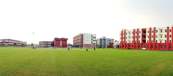 Campus (Part View)